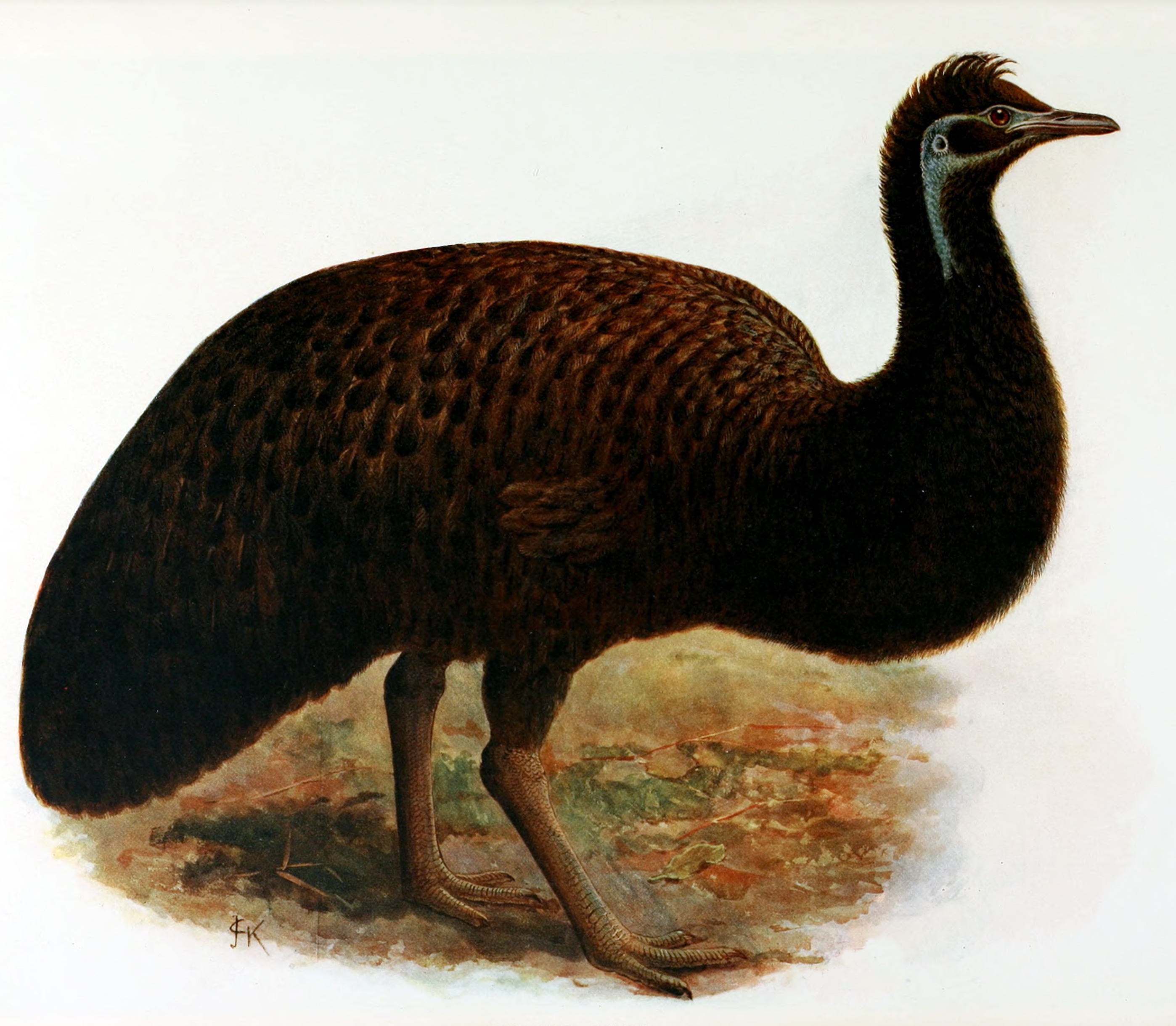 Restoration of an extinct emu based on a specimen in the Museum of Natural History in Paris, now thought to belong to Dromaius ater from King Island. However, in Rothschild's book, it is used to illustrate Dromaius peroni (which is now a synonym of Dromaius baudinianus), coined for the species from Kangaroo Island he thought the specimen belonged to. One-Third Natural Size—from type specimen